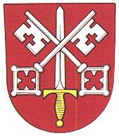 Coat of arms of Bělčice (city in Czechia)